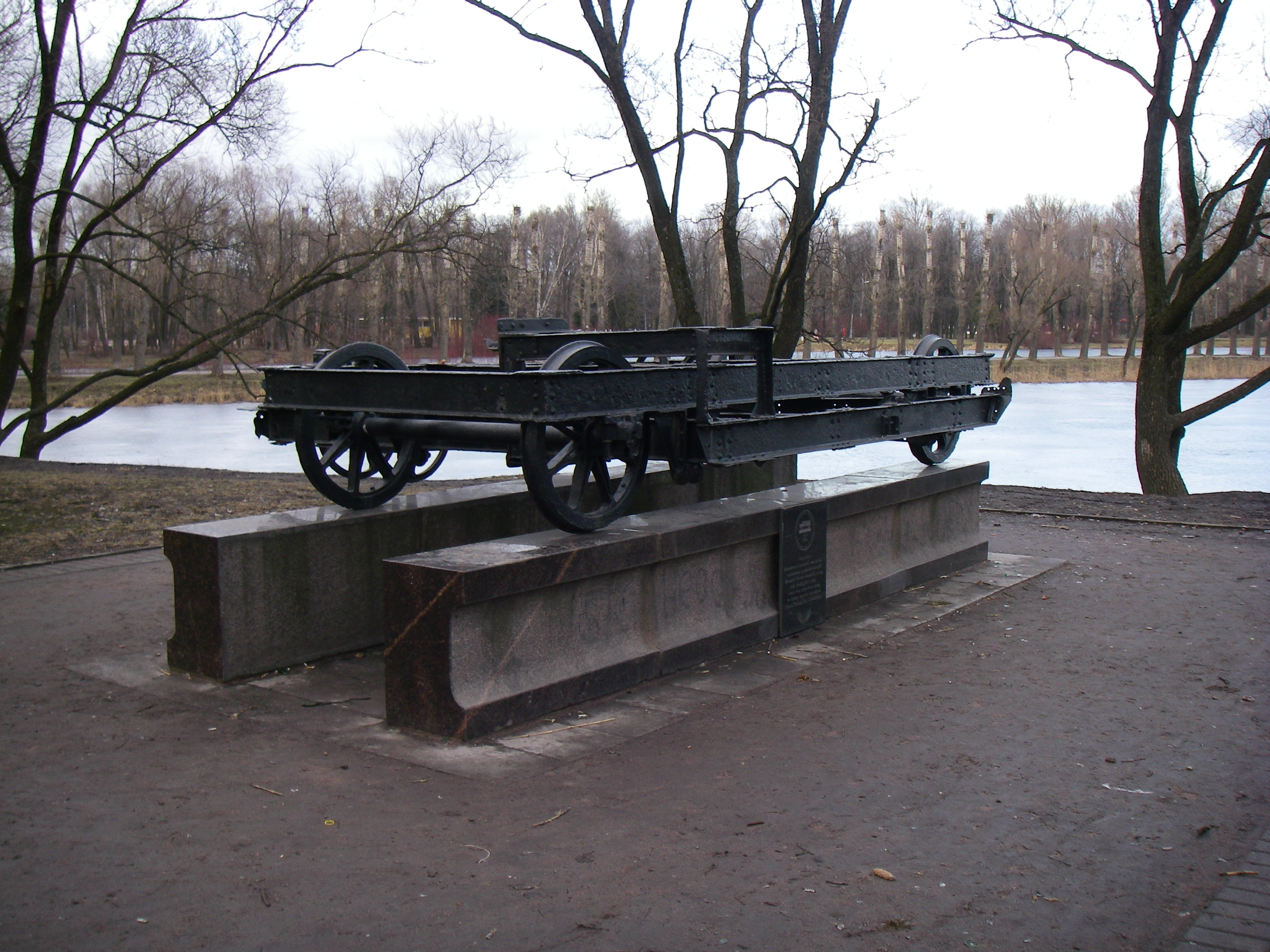 Commemorative rail truck, which was used during the Great Patriotic War in cremation procedures in 1st brick factory